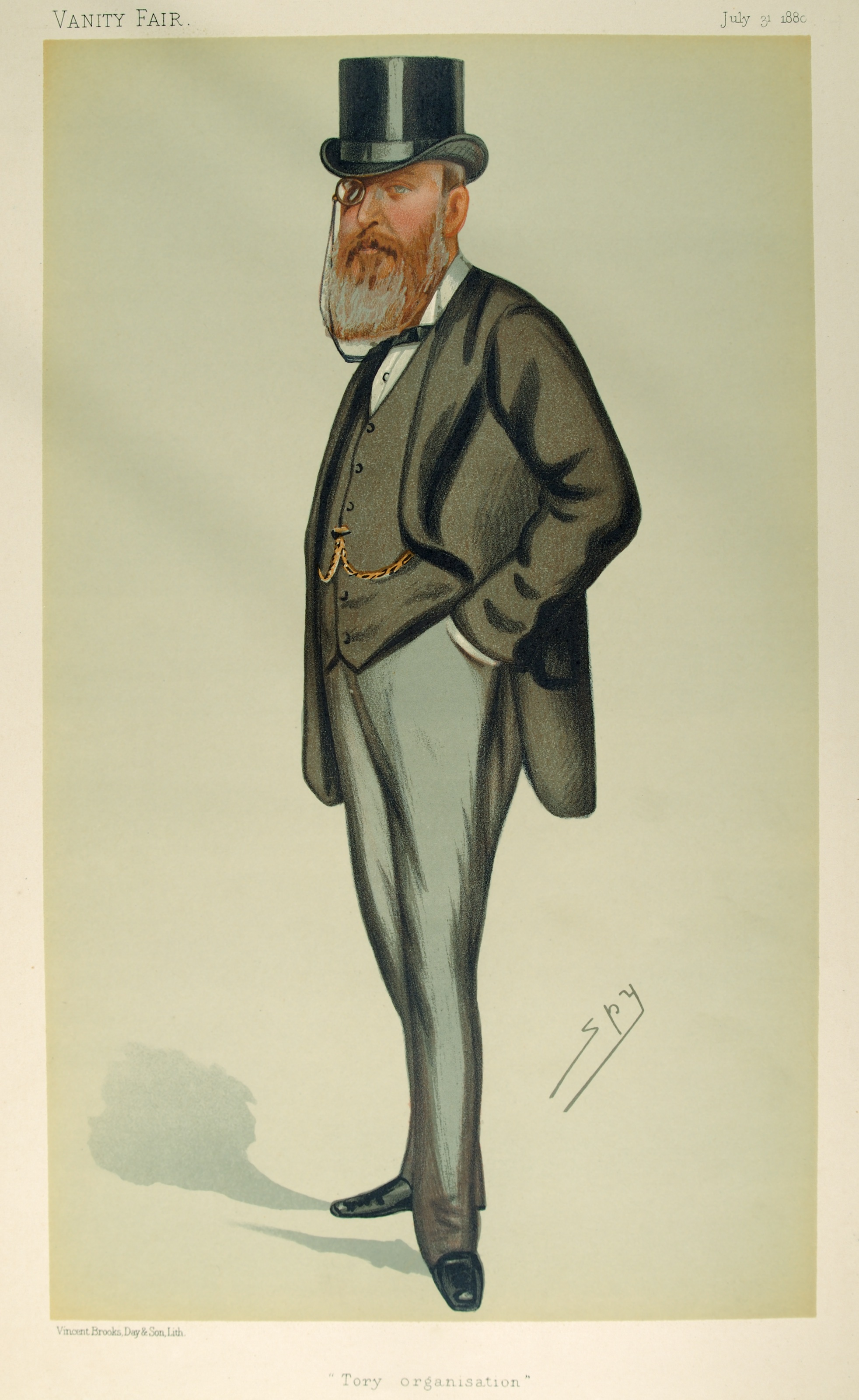 Statesmen No.333: Caricature of Mr JE Gorst MP. Caption reads: "Tory organisation"